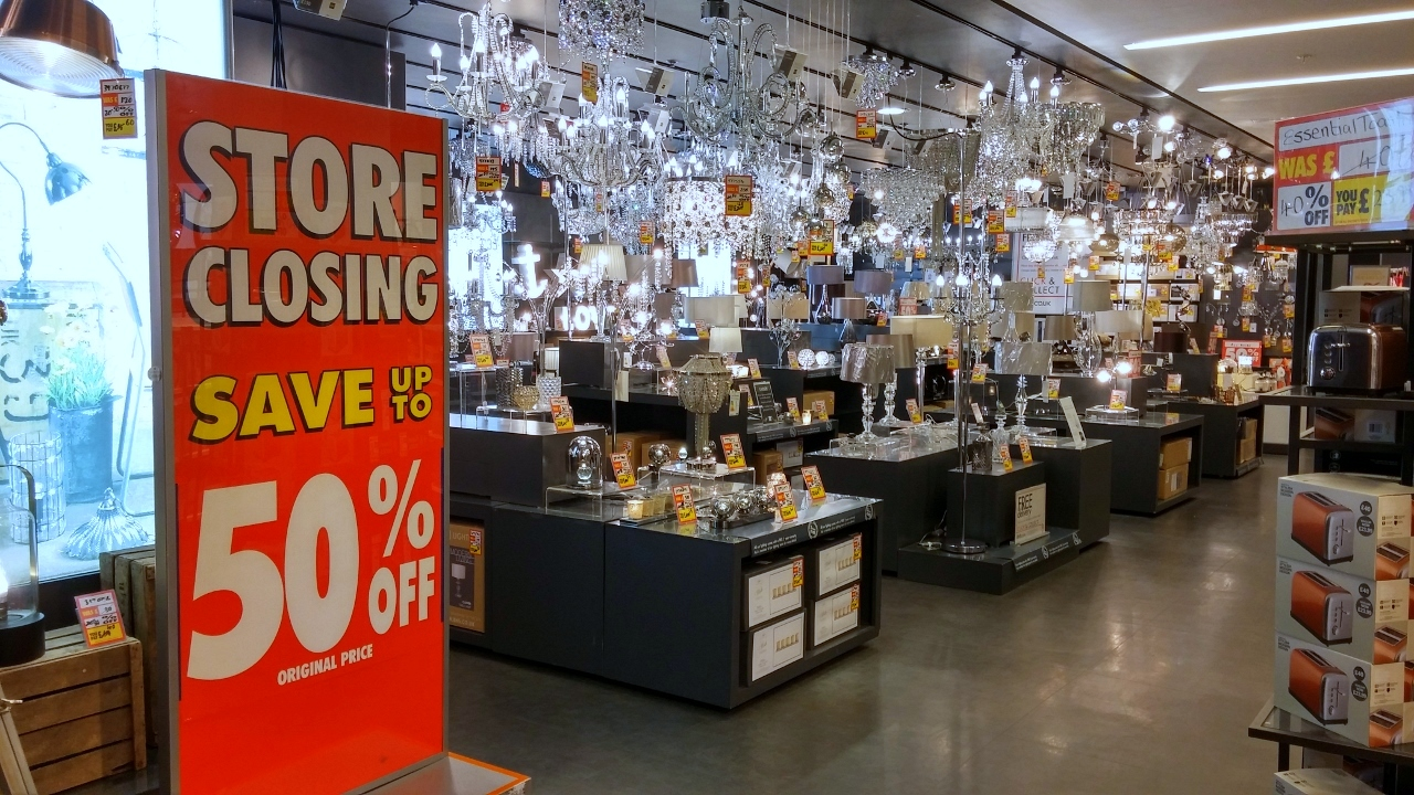 BHS, Trinity, Albion Arcade, Leeds